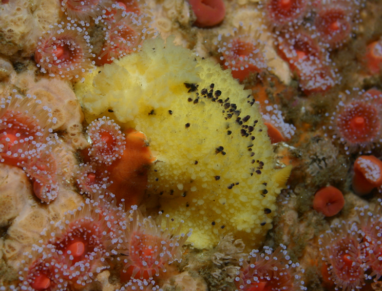 These dorid nudibranch (Archidoris montereyensis, and now Doris montereyensis), is crawling over a sponge and through strawberry anemones (Corynactis californica).